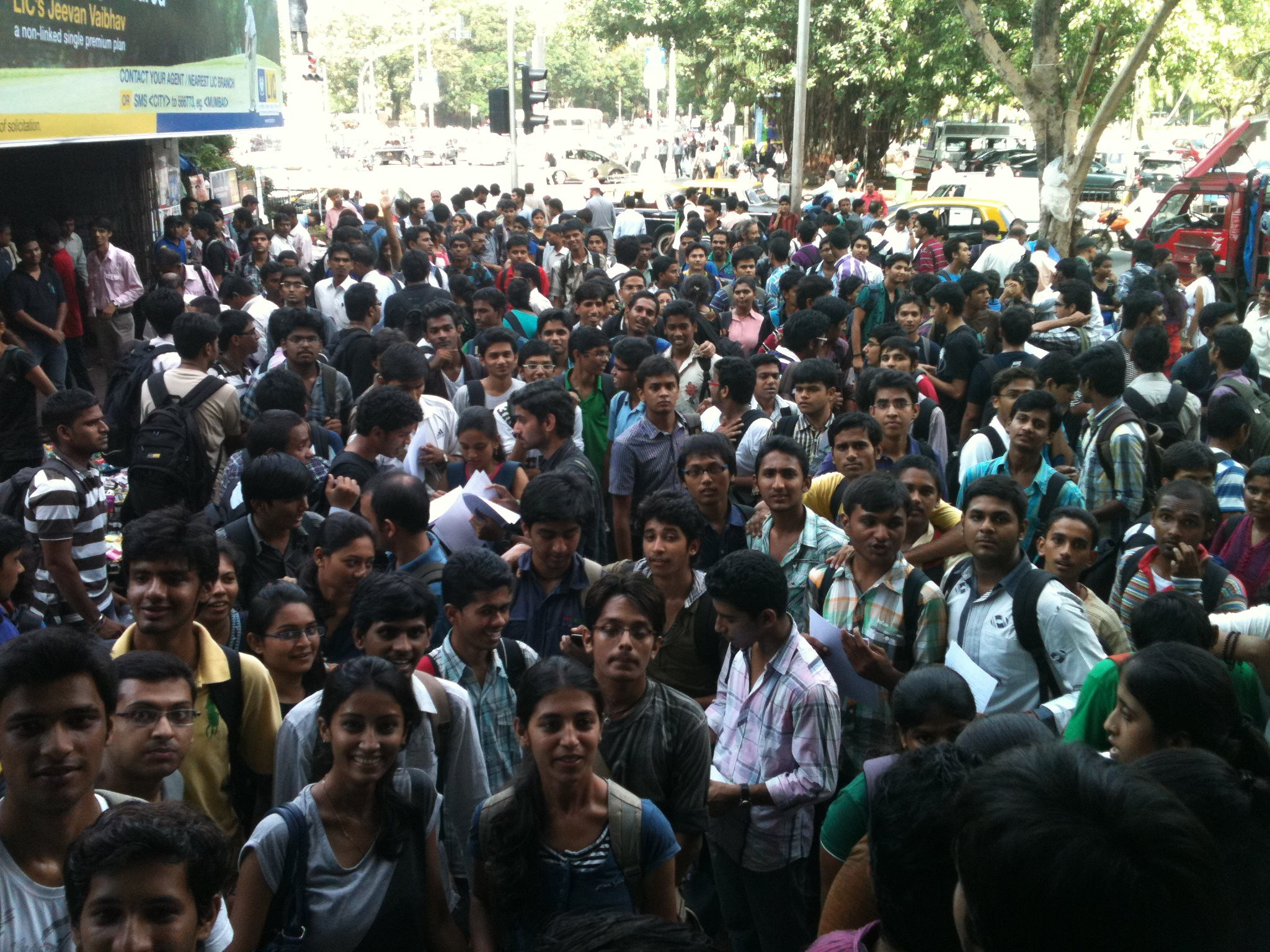 students of parshvanath college of engineering at the mumbai regional office of all india council for technical education, on friday, 24 august 2012.